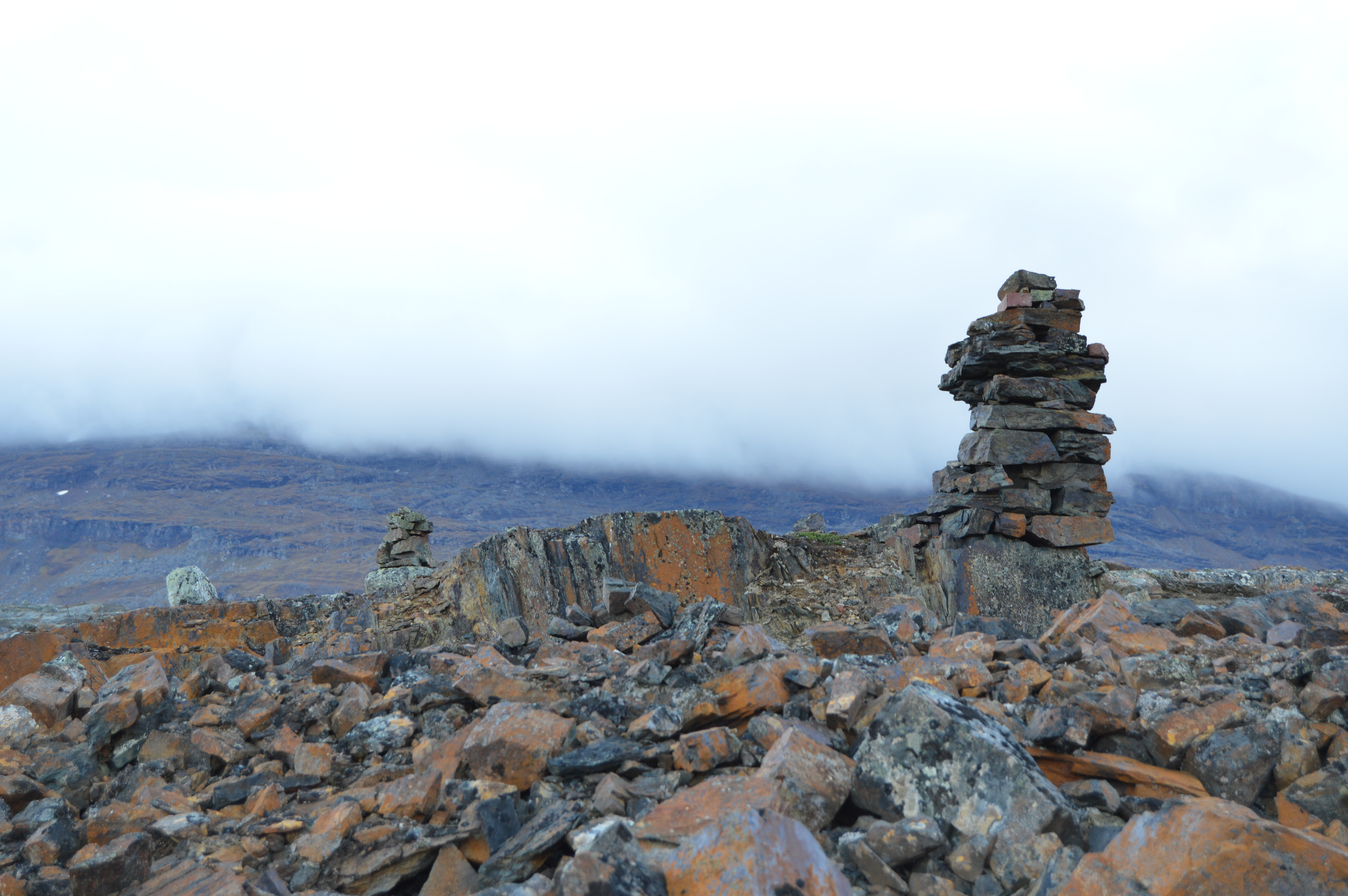 Ore pile from Koukkel coppermine